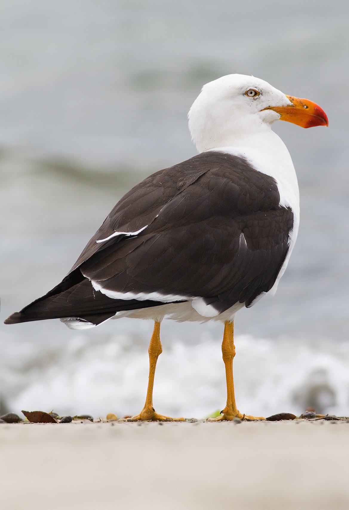 Pacific Gull (Larus pacificus pacificus) Bruny Island Camera data Camera Canon EOS 400D Lens Canon EF 400mm f5.6L Flash Fill w/ Fresnel Extender Focal length 400 mm Aperture f/7.1 Exposure time 1/1250 s Sensivity ISO 400